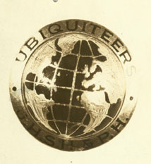 The Ubquiteers Pin